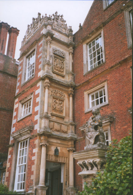 Entrance to Burton Agnes Hall, Burton Agnes, East Riding of Yorkshire, England.A close-up of the entrance shown in 542737.